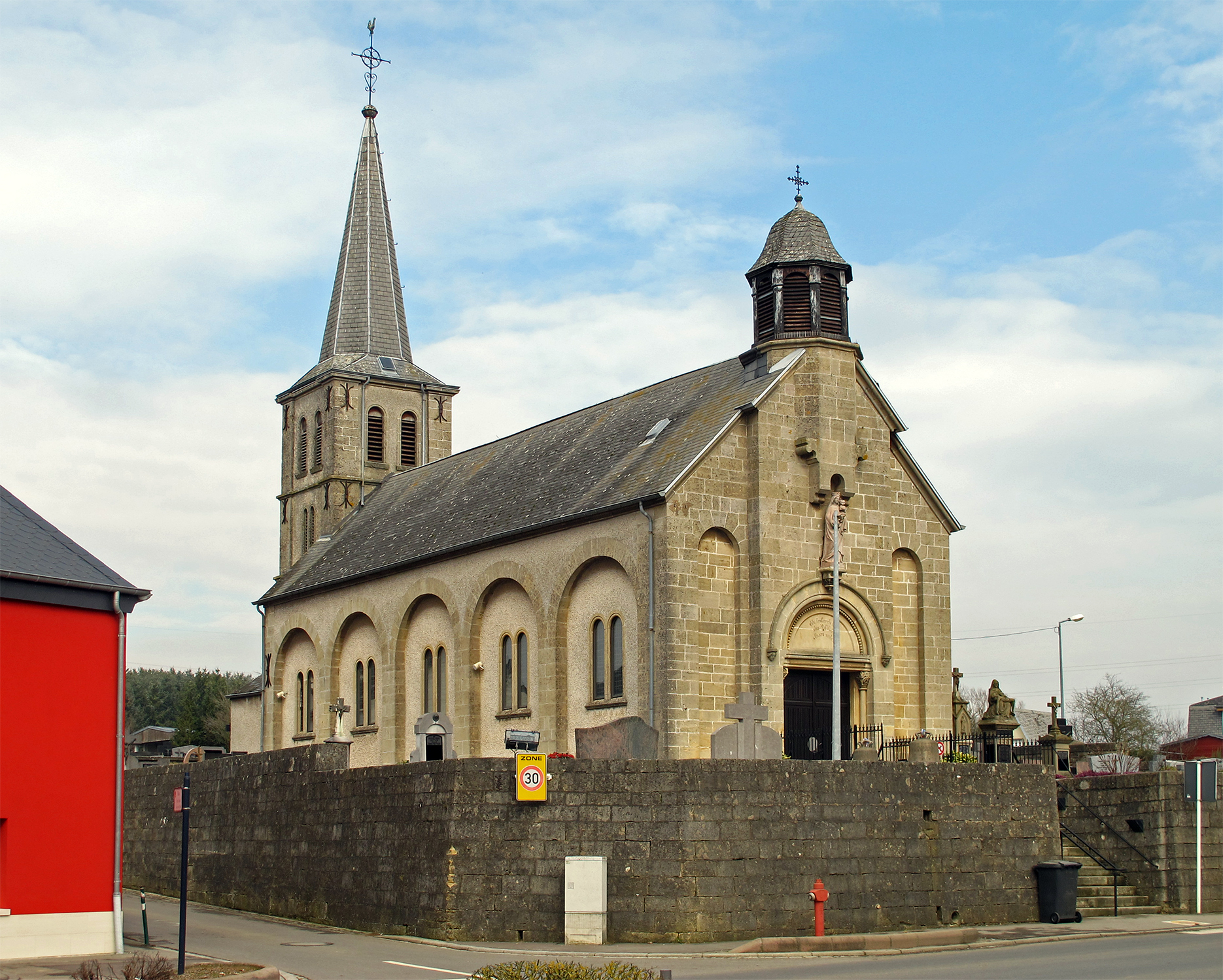 Church of Linger, Luxembourg